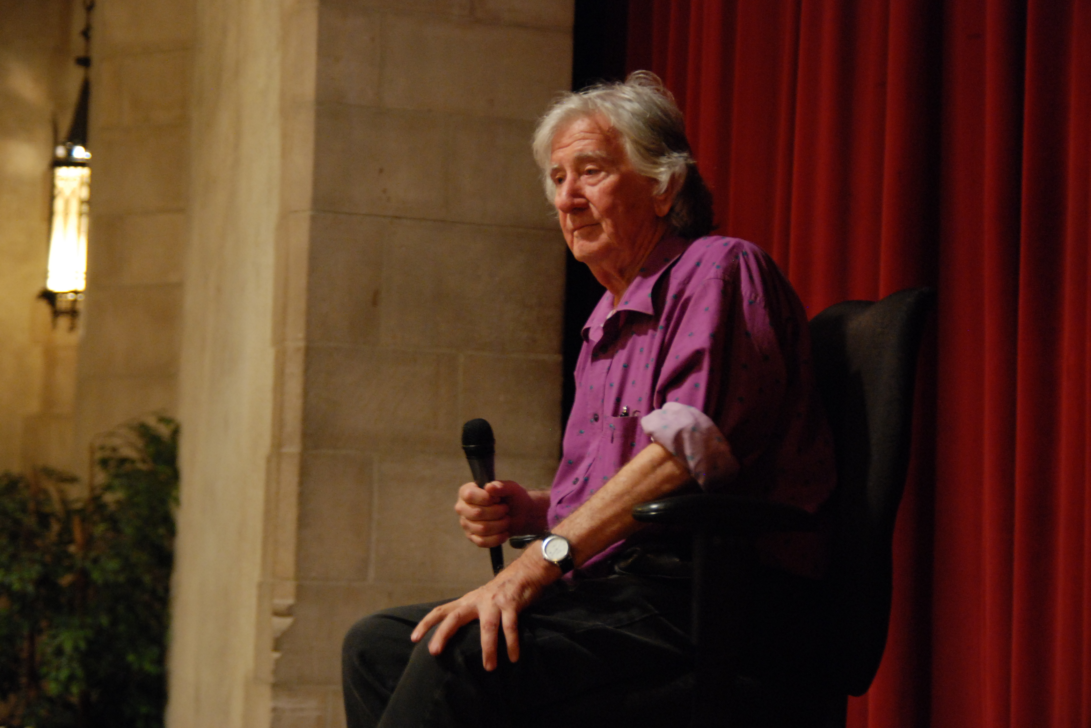 Brazilian theater director and writer Augusto Boal presenting his Theater of the Oppressed at Riverside Church in New York City.